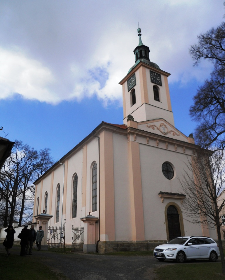 Velim, protestant church (1856)